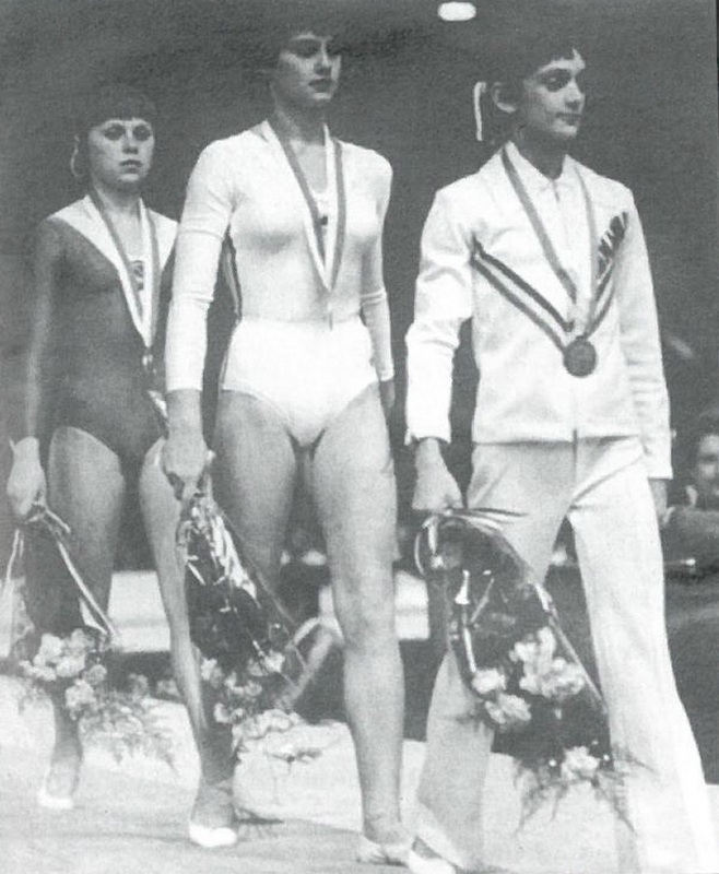 Elena Mukhina, Nadia Comăneci and Emilia Eberle at the 1978 World Championships in Strasbourg